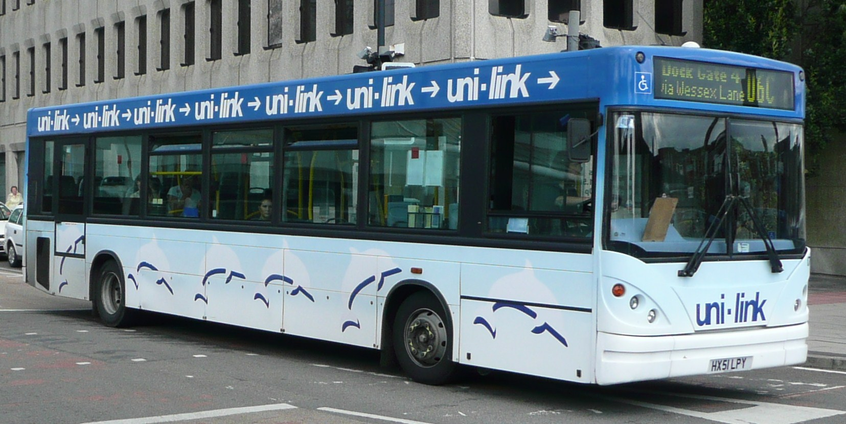 Enterprise 17 (HX51 LPY), a Dennis Dart/Caetano Nimbus in Portland Terrace, Southampton, on Uni-link route U6C.